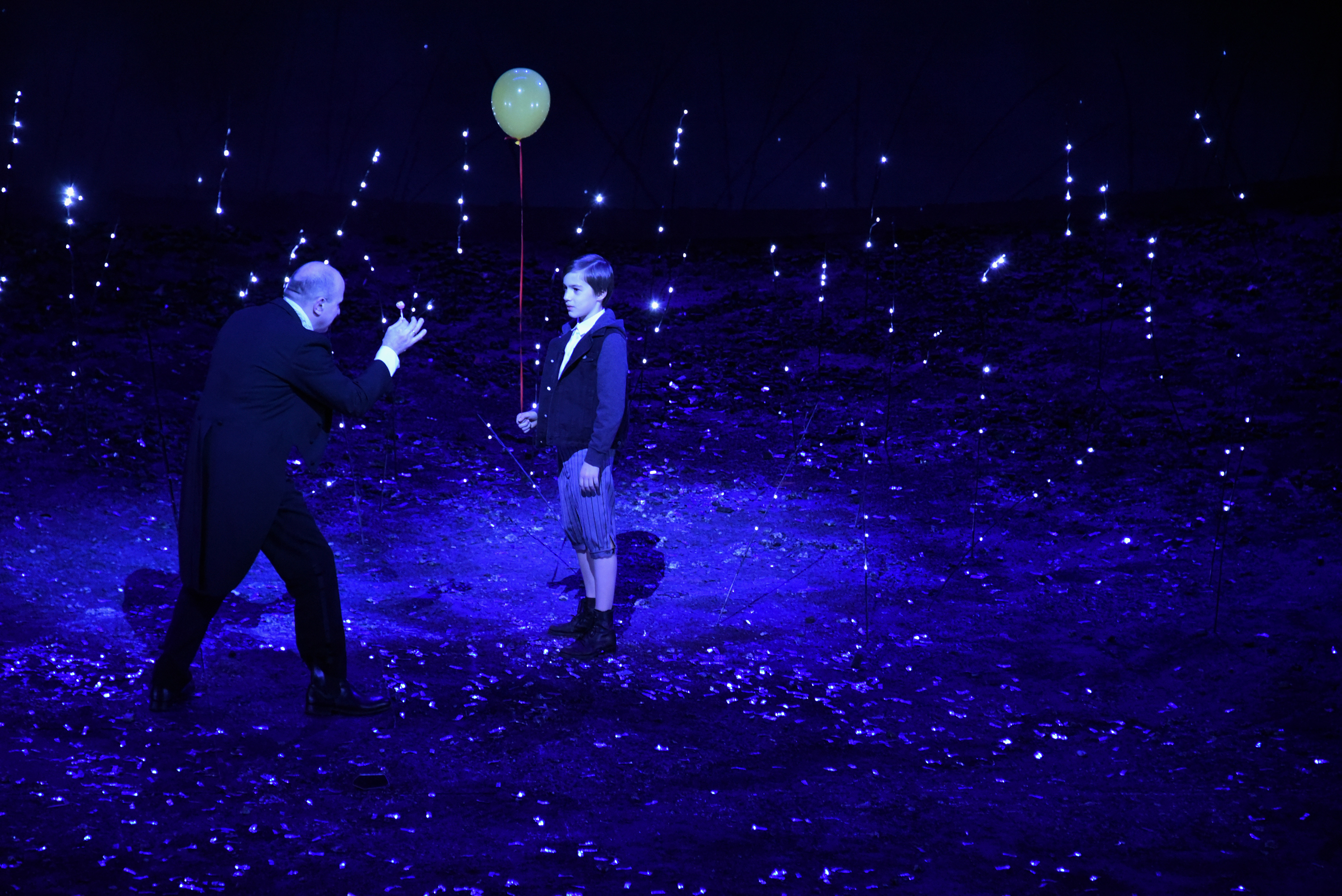 Die Gezeichneten, opera by Franz Schreker (Opéra de Lyon 2015)